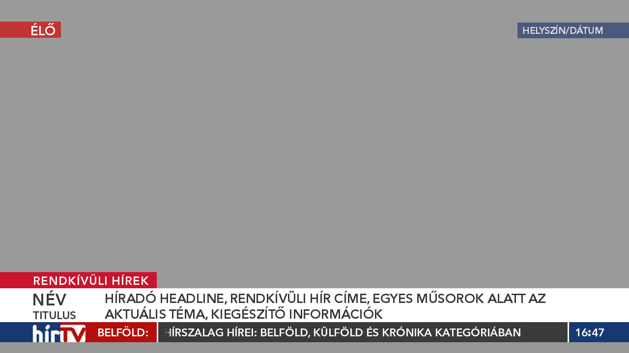 The graphics of Hír TV, hungarian news channel